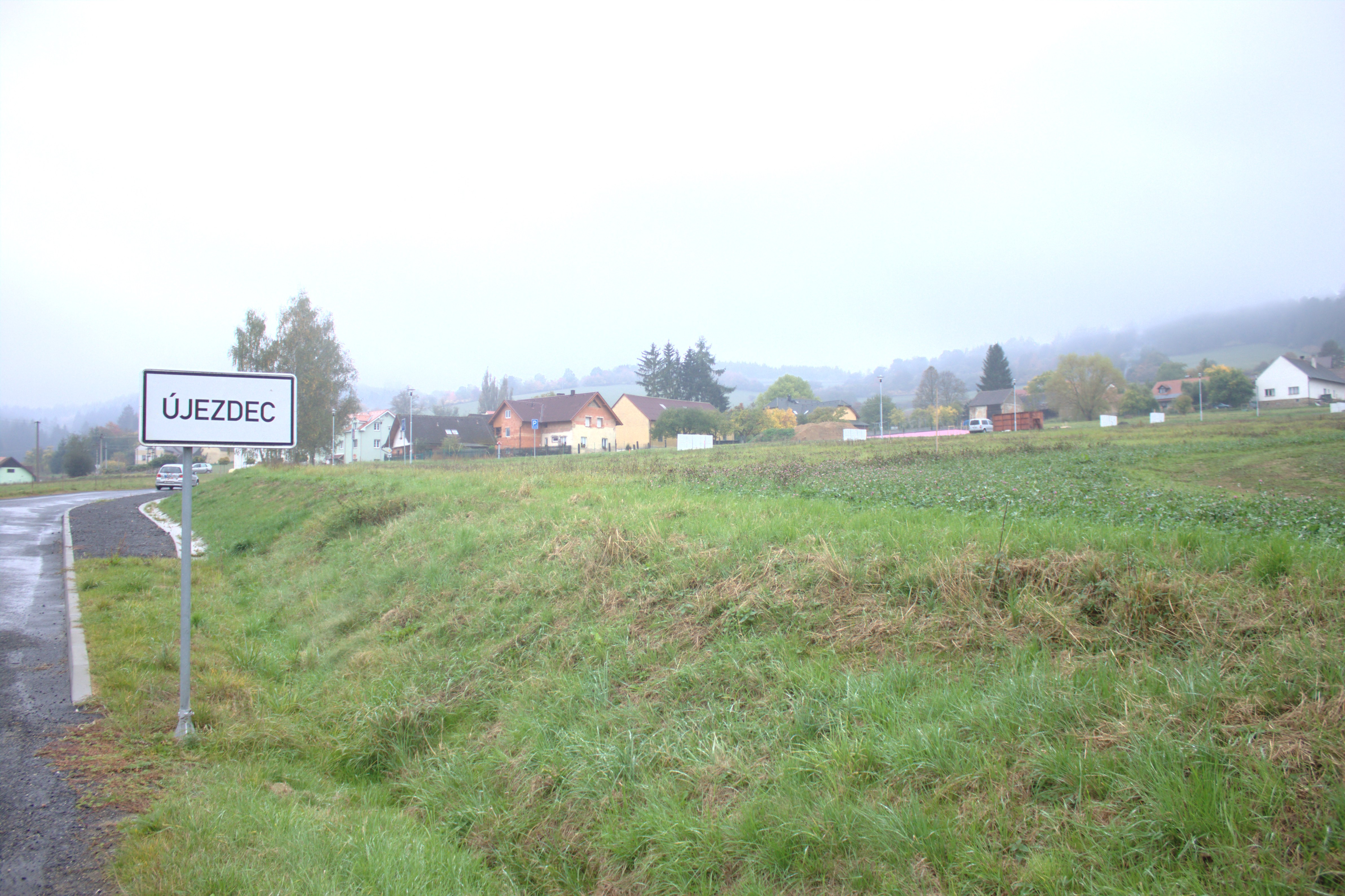 Buildings in the village of Újezdec, Plzeň Region, CZ